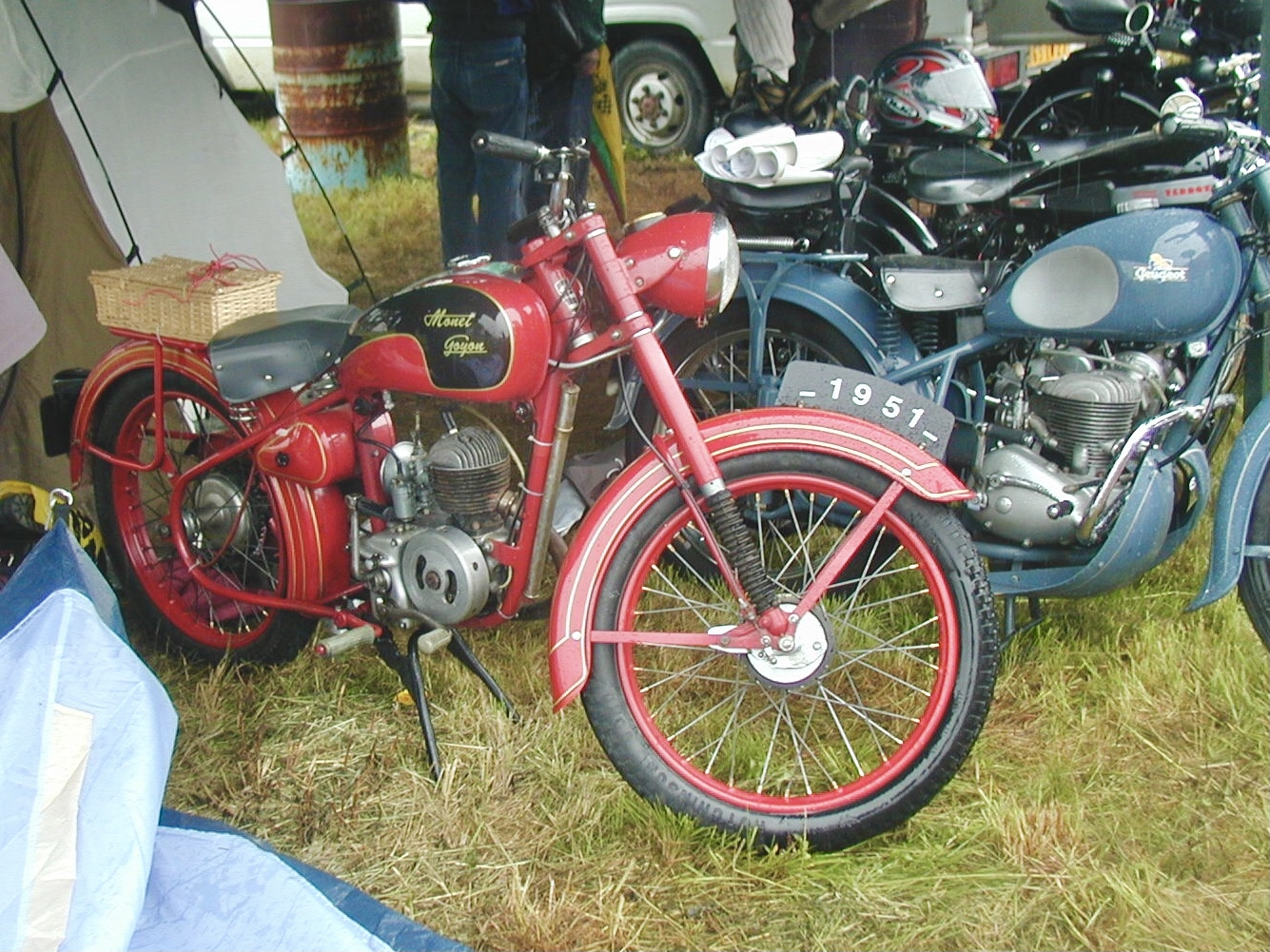 Old Monet Goyon french motorcycle